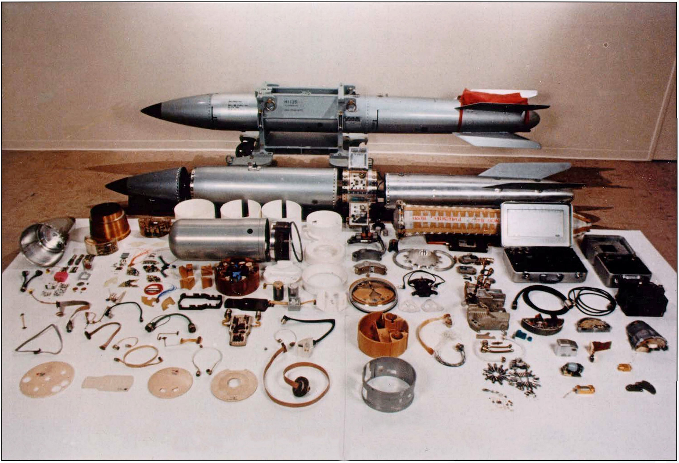 Image of a B-61 thermonuclear weapon. In the back it is assembled, in the middle it is divided into its major subcomponents, in the front it is almost completely disassembled. The warhead is contained in the bullet-shaped silver canister (see Image:W80_nuclear_warhead.jpg for a different, but similarly shaped, warhead casing).